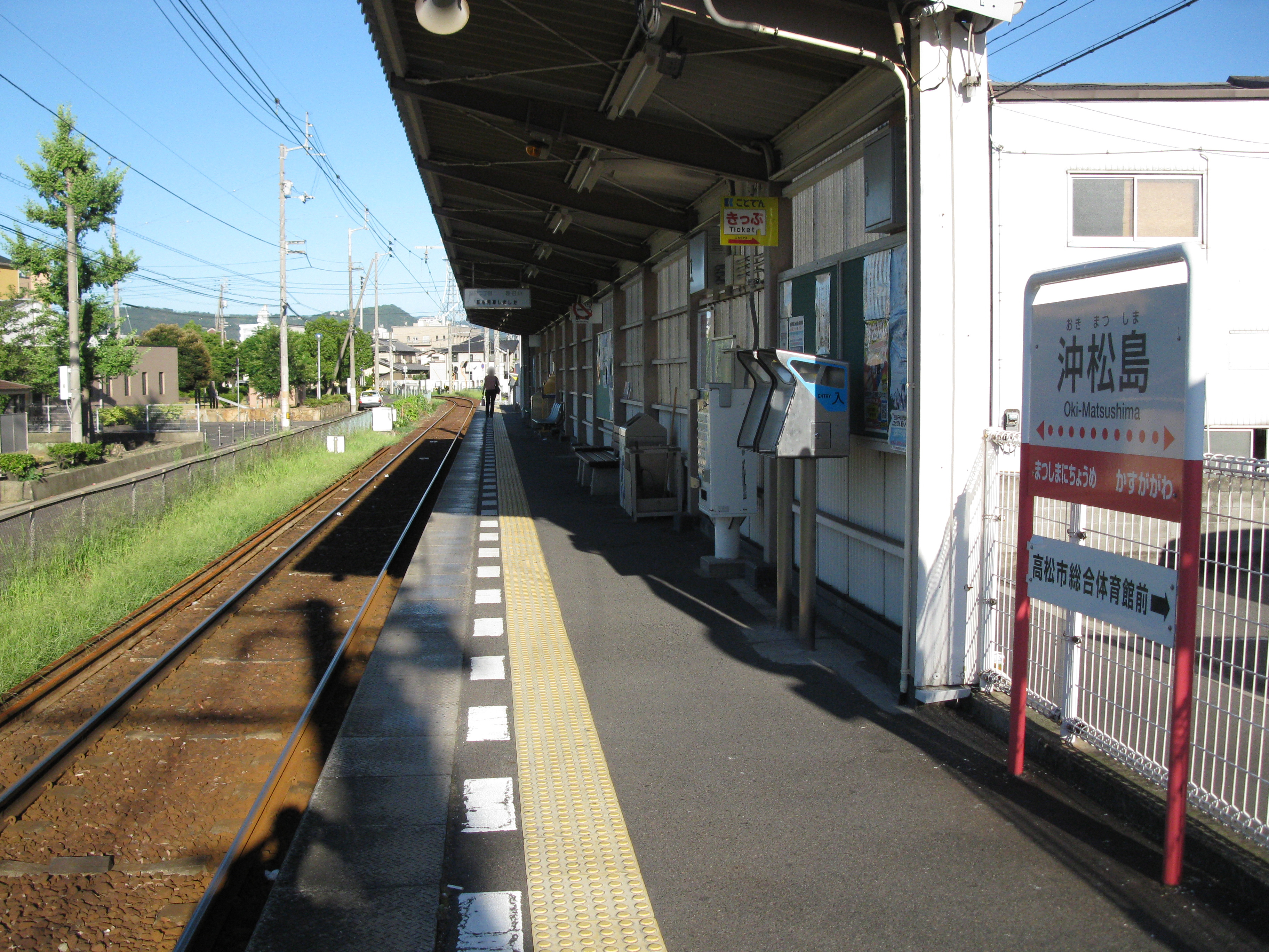 Okimatsushima Station platform (Takamatsu-Kotohira Electric Railroad(Kotoden) Shido Line)